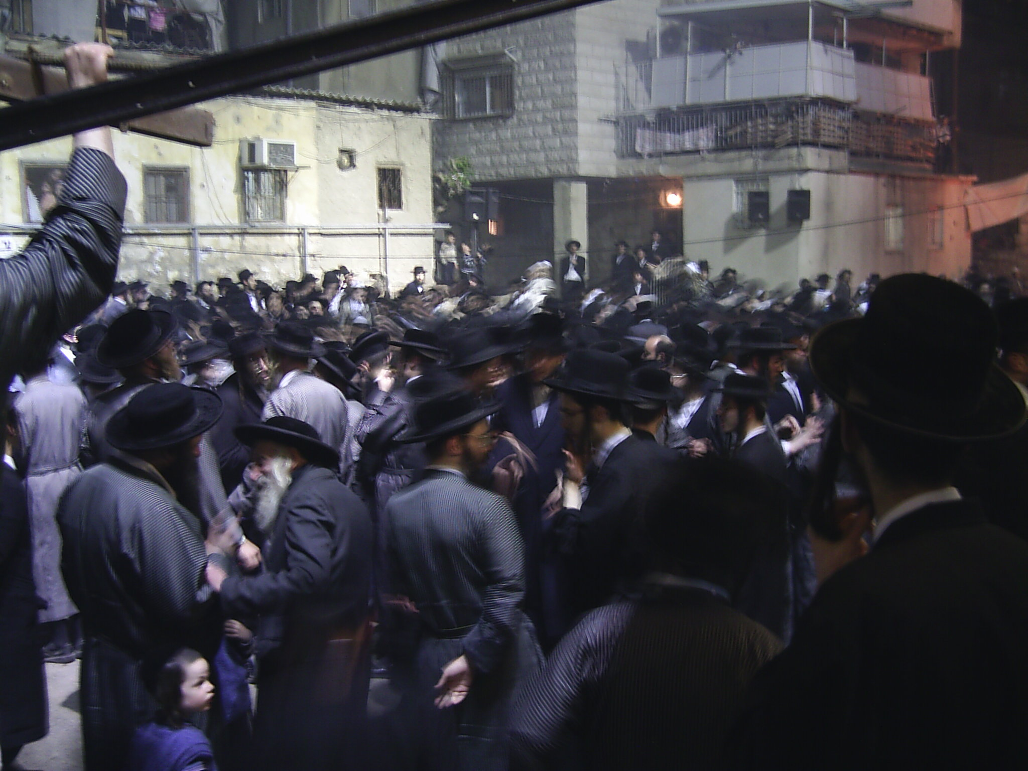 Lag B'Omer party at Toldos Aharon in Jerusalem.